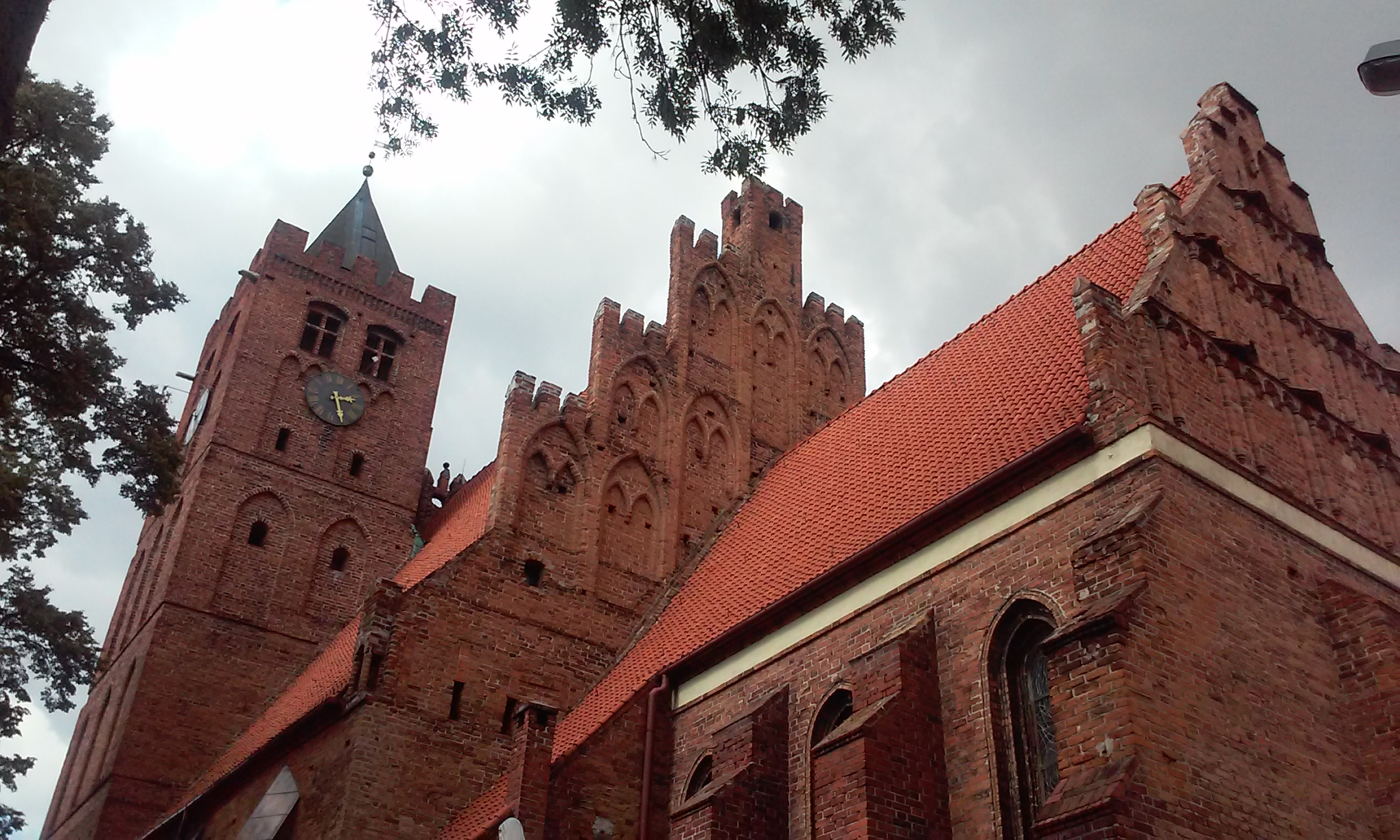 Nowe, Kuyavian-Pomeranian Voivodeship, Poland